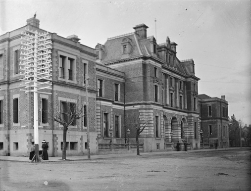 The Old Treasury Building in Perth. At this time it was also used as Perth's General Post Office.